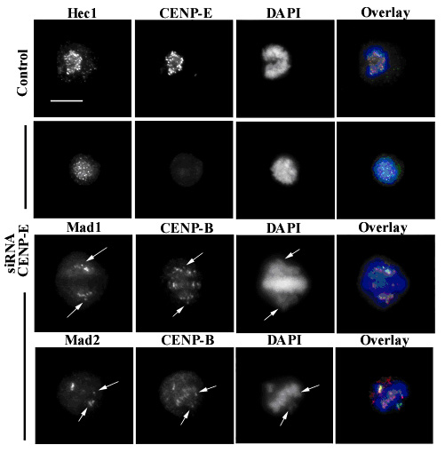 Metaphase cells depleted for CENP-E using RNAi, showing unaligned chromosomes (arrows) which show positive staining for checkpoint proteins Mad1/Mad2. Hec1 and CENP-B label the centromeric region (the kinetochore), and DAPI labels the ADN.